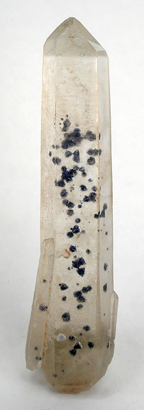 Fluorite, Quartz Locality: Miandrivazo, Fianarantsoa Province, Madagascar Size: cabinet, 13.6 x 3.4 x 2.0 cm Fluorite included in Quartz These specimens were one of the few "new sensations" at the Tucson Show of 2005, especially as new finds were so scarce that year in general. We EXPECTED to see more at Denver 2005 but there were none to be had...they have NOT FOUND ANOTHER LARGE POCKET SINCE! This is a very large crystal for the find , and exceptionally rich with purple-blue, sharp fluorite crystals included inside. It is almost doubly-terminated, with a slight bit missing a tthe bottom and the smallest of dings atop (you have to really look to see it...no visual impact). This piece has the most inclusions per unit area of any I have had, I would say, and thus the best overall impact and color appeal. The fluorites grew on the face of the quartz crystals at some point during their development in the pocket, and were later engulfed as the quartz continued its growth. These are certainly the most interesting fluorite inclusions we have seen from any recent find, and this particular piece is a stellar example.